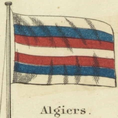 Algiers. Johnson's new chart of national emblems, 1868.jpg Johnson's new chart of national emblems. Print showing the flags of various countries, those flown by ships, and the "Signals for Pilots." In the top left corner is the "United States" 37-star flag, in the top right corner is the "Royal Standard of the United Kingdom Great Britain & Ireland"; in the bottom left corner is the "Russian Standard" and in the bottom right corner is the "French Standard." The flags on this sheet differ slightly from those on another sheet numbered 4 [top left] and 5 [top right].